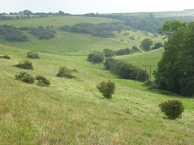 Hog Cliff Bottom On the right is the eastern extremity of Parson's Coppice. Much of the valley is part of an nature reserve owned by Natural England. The grassland habitat, unlike most downland, has not been improved. Natural England also has two sites just to the east of the A37.